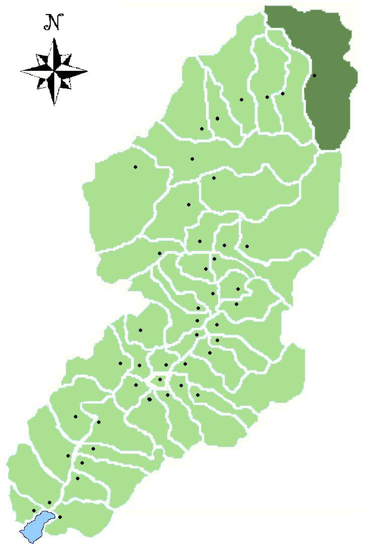 Map of the Comune di Ponte di Legno, Valle Camonica